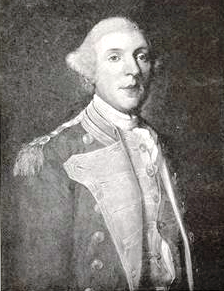 Roger Morris By Benjamin West